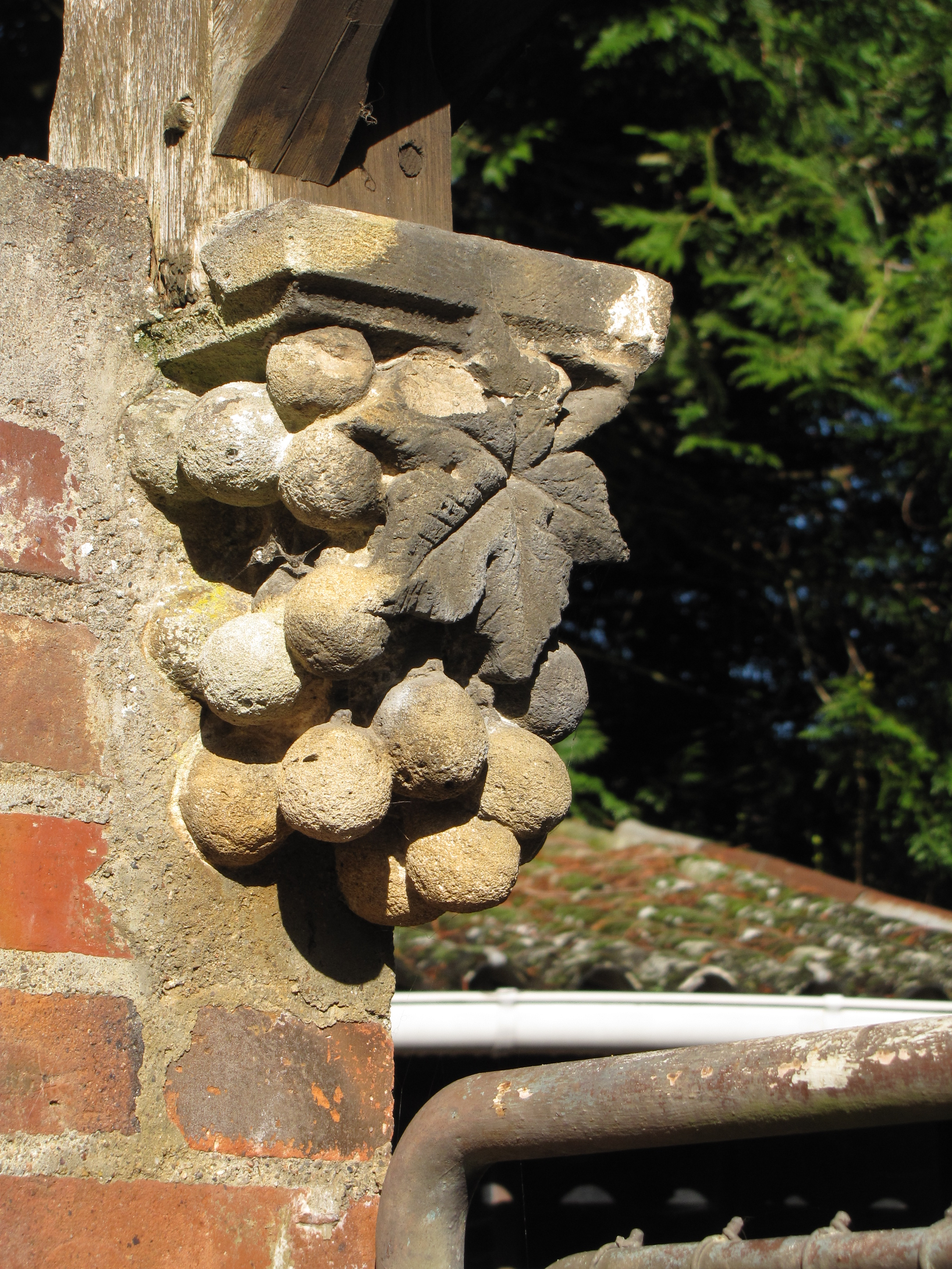 Malicorne, Yonne, Burgundy, France.